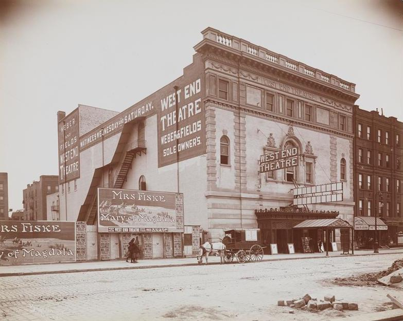 The West End Theatre, 362 West 125th Street, New York City. Source description reads: "A horse-drawn delivery carriage advertising the West End Theatre parked in front of the theater. Two billboard posters advertise the West End Theatre's production of Mary of Magdala by Paul Heys and starring Mrs. Fiske."